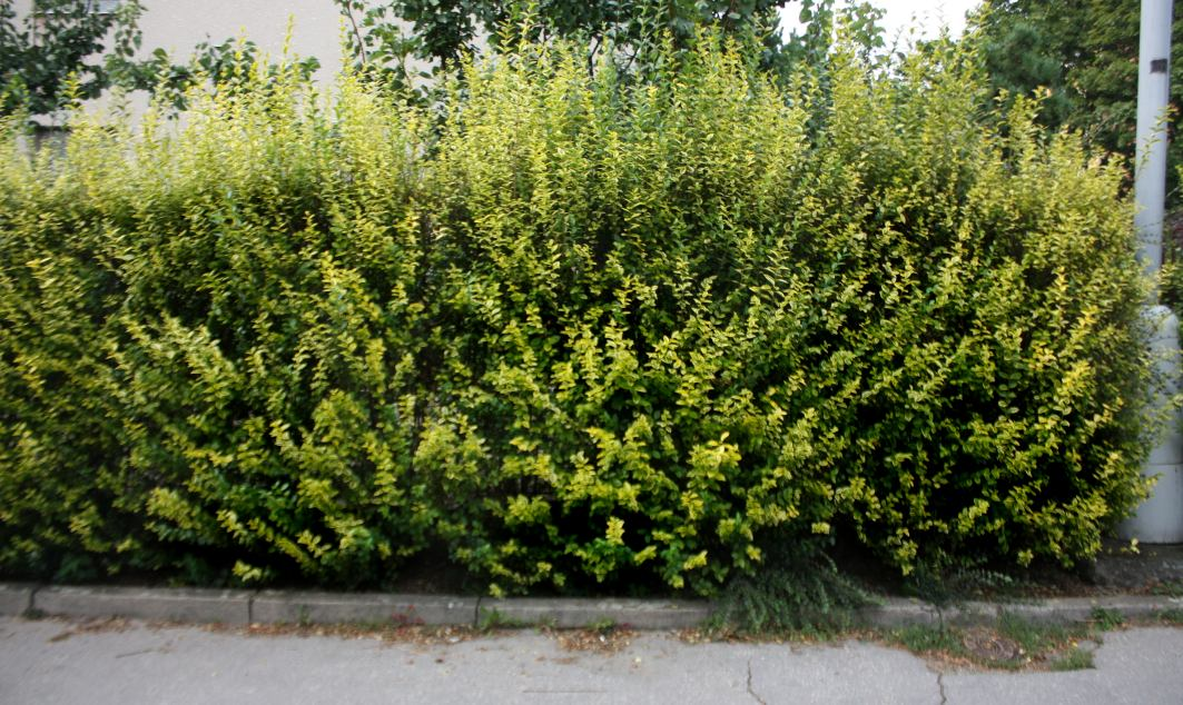 Brno-Komín,Ligustrum ovalifolium, Aureum